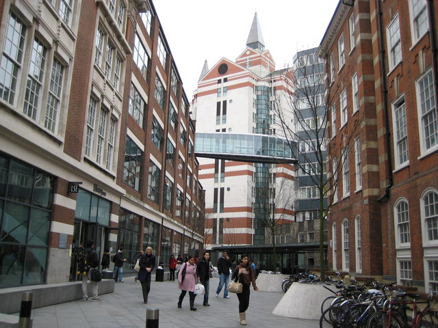 Holborn: John Watkins Plaza, London School of Economics This plaza, which is off Portugal Street, was designed to replicate the open space of a square in an Italian city, and to achieve one of the LSE's key aspirations, that of matching quality of environment with quality of teaching and research. It was named after Professor of Philosophy John Watkins who taught at the LSE from 1950 to 1989, later becoming Emeritus Professor until his death in 1999. The plaza was opened in June 2003. The building on the left is the Lionel Robbins Building, while The Lakatos Building is on the right.